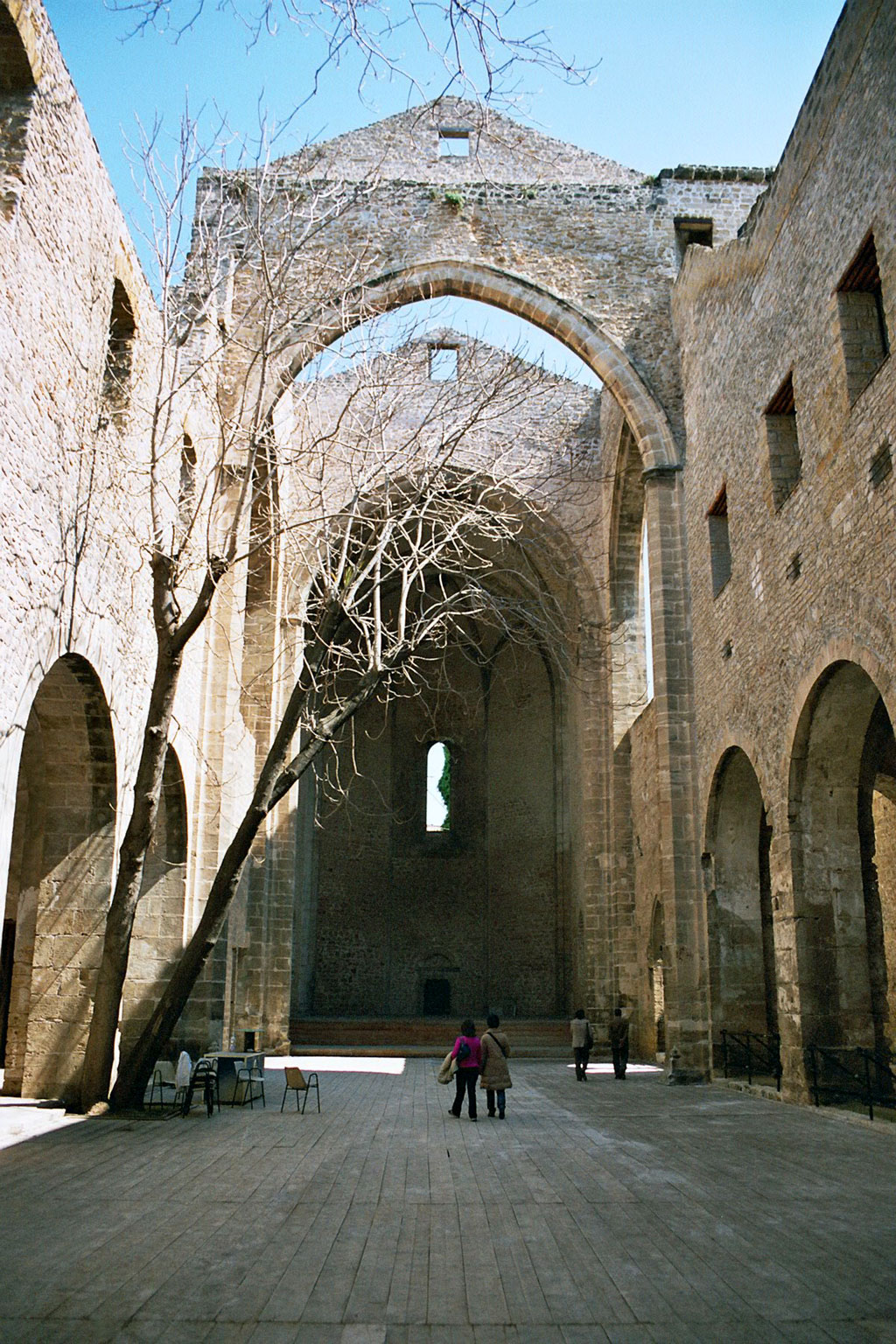 Santa Maria dello Spasimo in Palermo, Sicily Interior, often used as an open-air concert hall